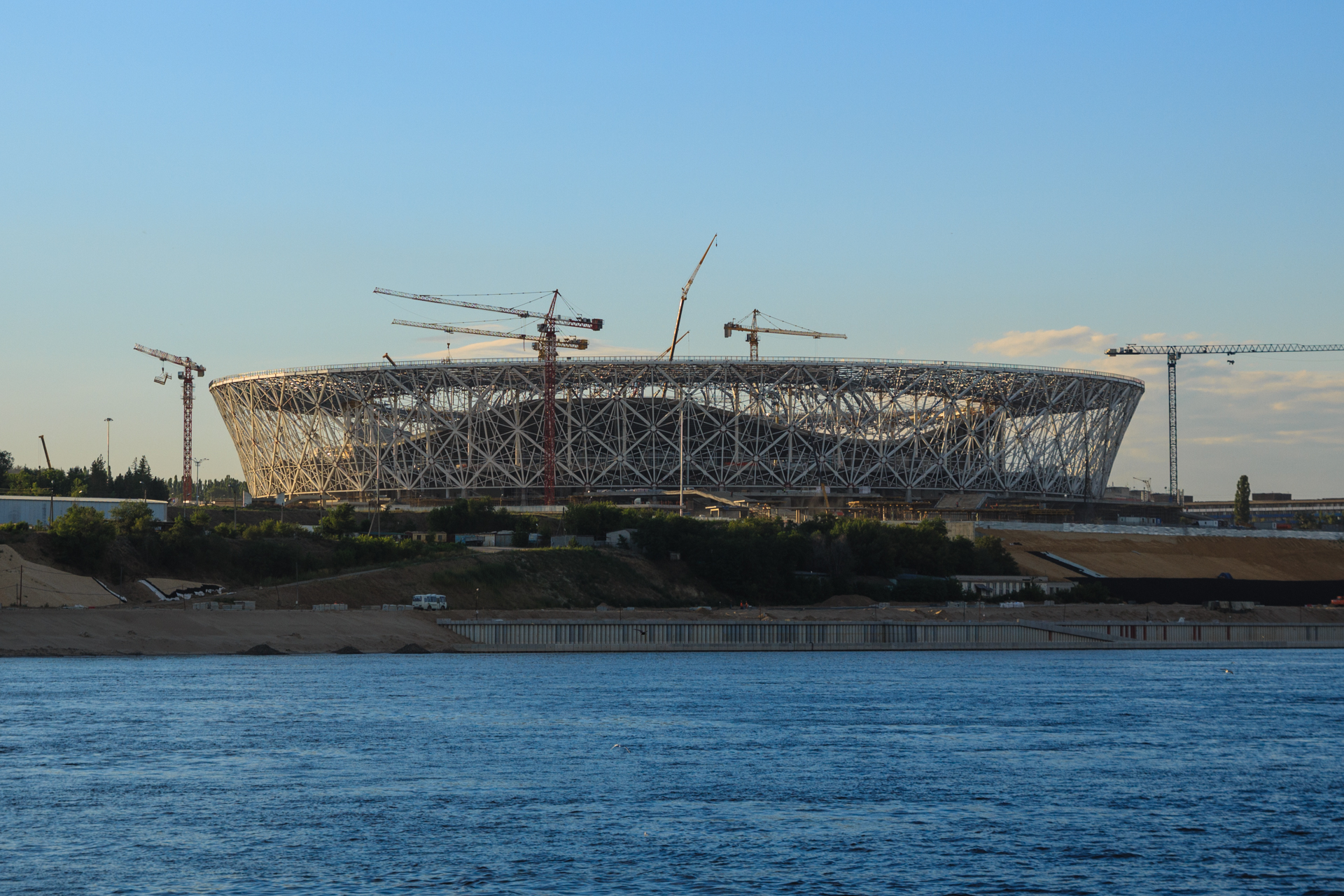 A construction of Volgograd Arena viewed from Volga river